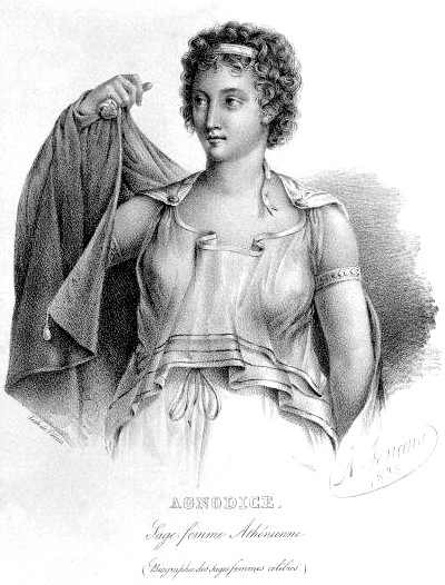 Agnodice